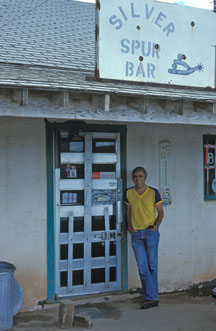 Gil at Silver spur bar; picture by Meredith Blackwell